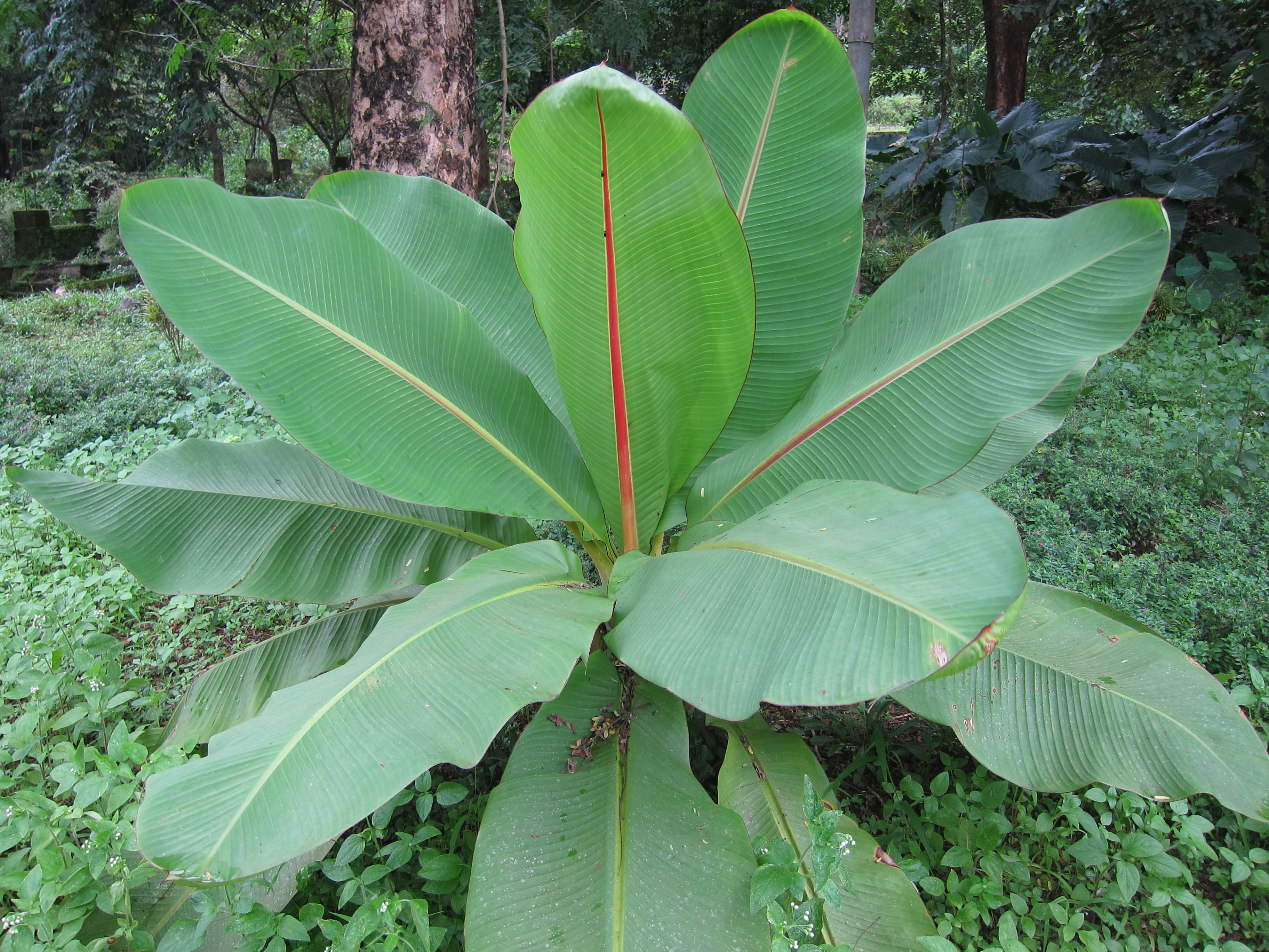 Ensete Superbum - കല്ലുവാഴ, കാട്ടുവാഴ, മലവാഴ ത്രിശൂർ ജില്ലയിൽ ചാലക്കുടിക്കടുത്തുള്ള തുമ്പൂർമുഴി തടയണയ്ക്കടുത്തുള്ള ഉദ്യാനത്തിൽ നിന്ന്...